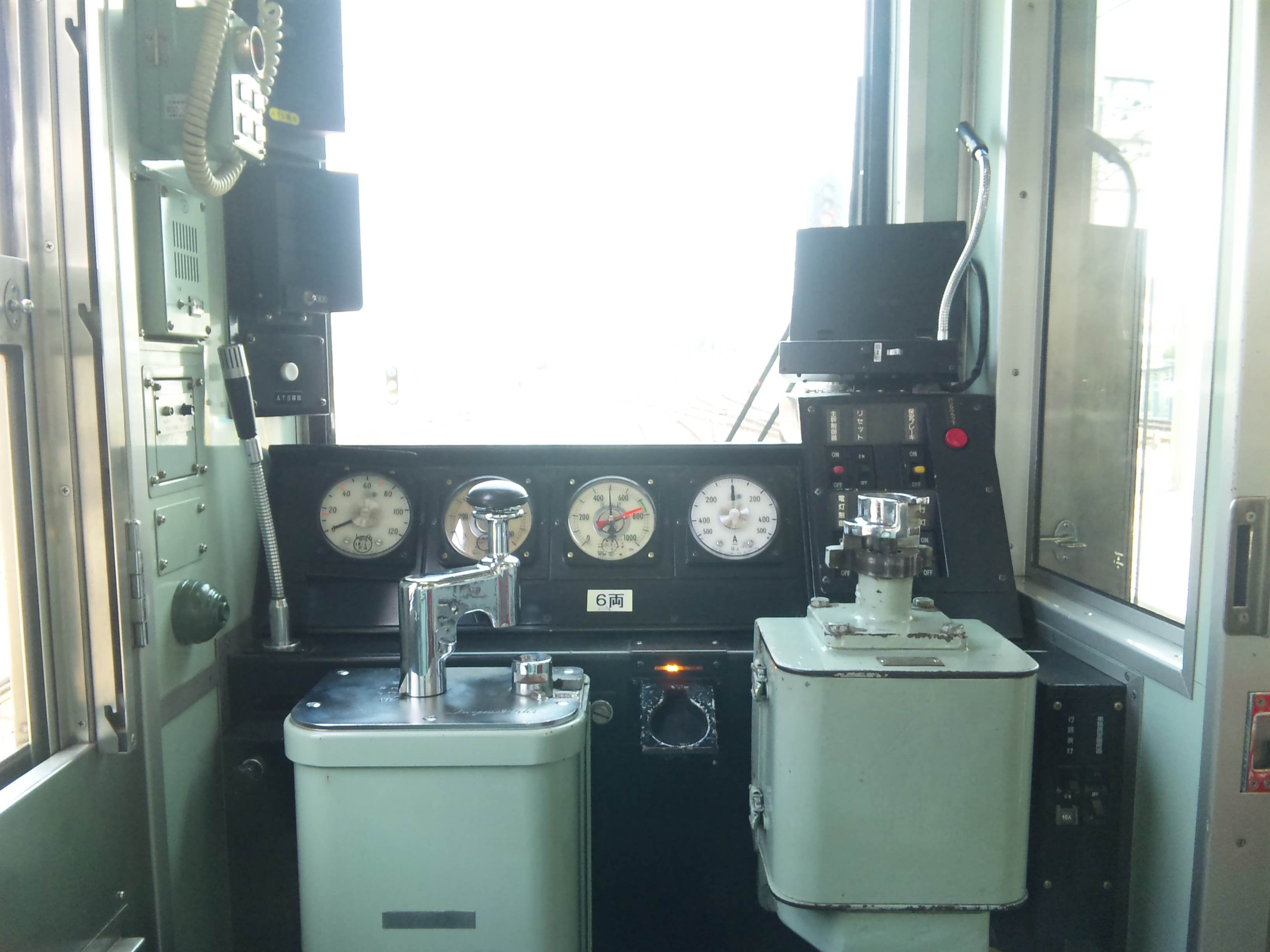 Driving cab of Keisei Electric Railway 3500 series EMU